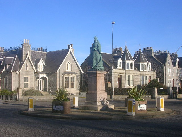 Queen's Cross, Aberdeen. This statue of Queen Victoria was moved here in 1964 having previously stood in St. Nicholas Street, in the city centre.